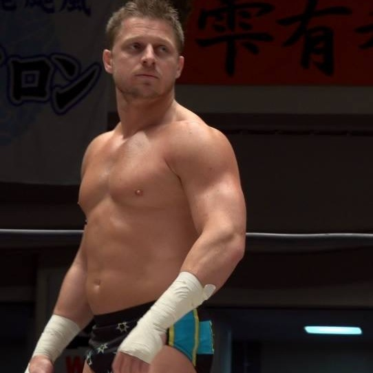 Rionne Fujiwara